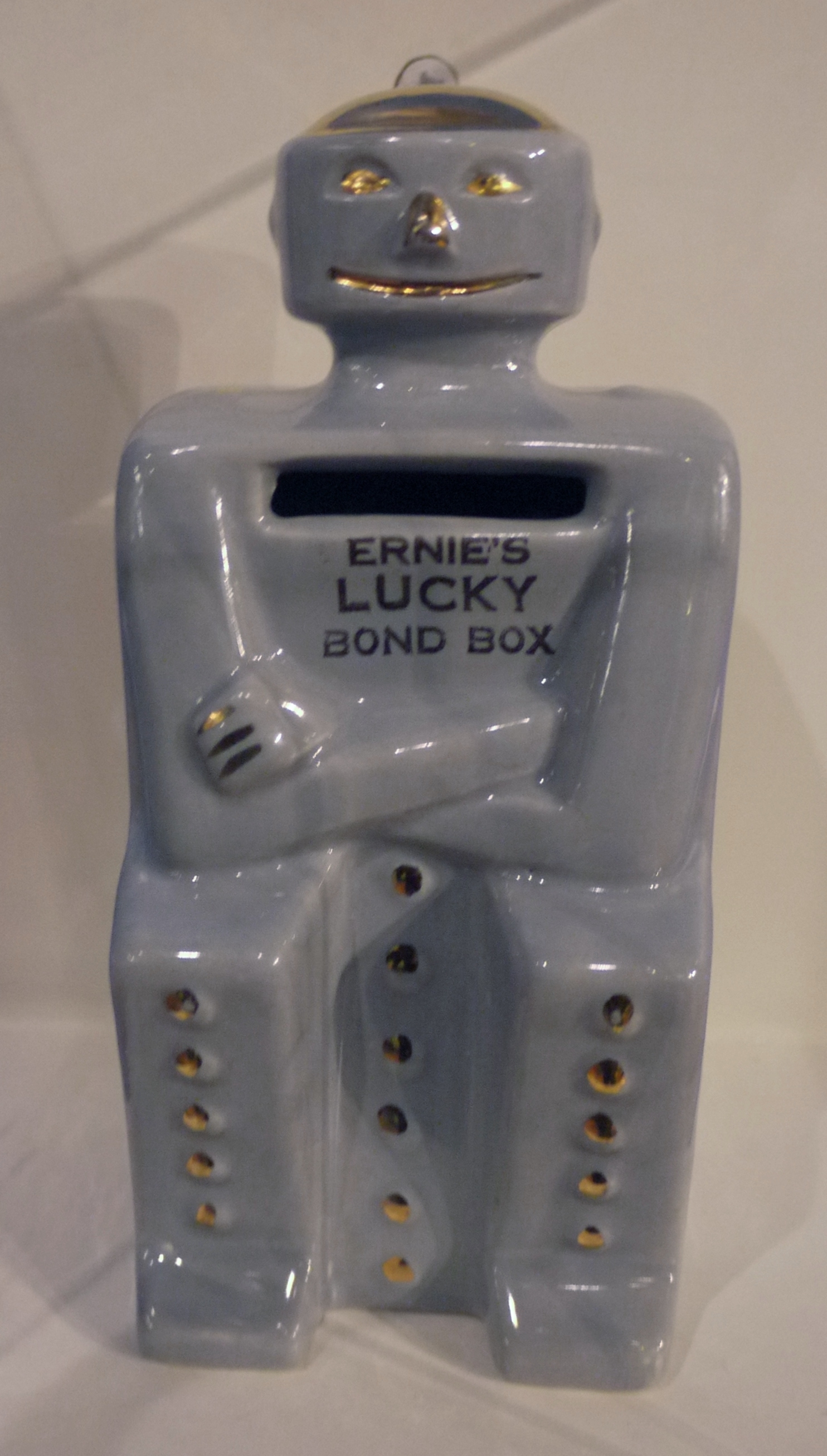 Photo of a money box in the shape of a personification of ERNIE the computer that draws the UKs Premium Bonds